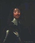 James Graham, 1st Marquess of Montrose